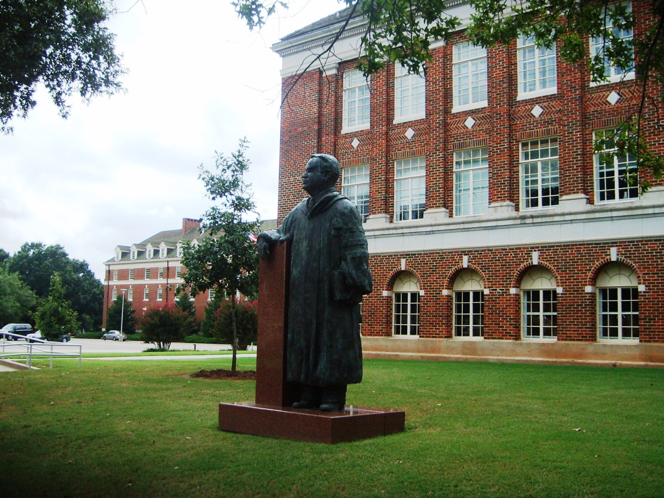 Photo of the statue of Henry G. Bennett, past president of Oklahoma State University and author of the campus master plan